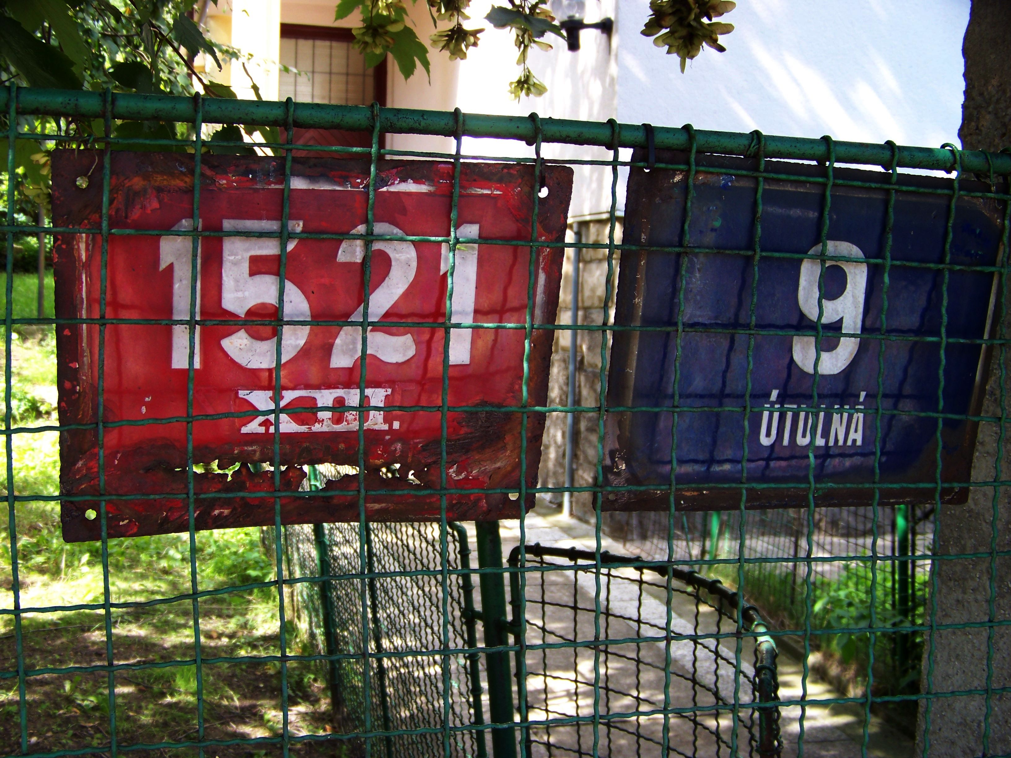 Prague-Strašnice, the Czech Republic. Útulná 1521/9, house numbers.